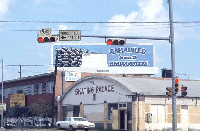 Photo of the Armadillo World Headquarters, an Austin, Texas music venue, in September 1976.